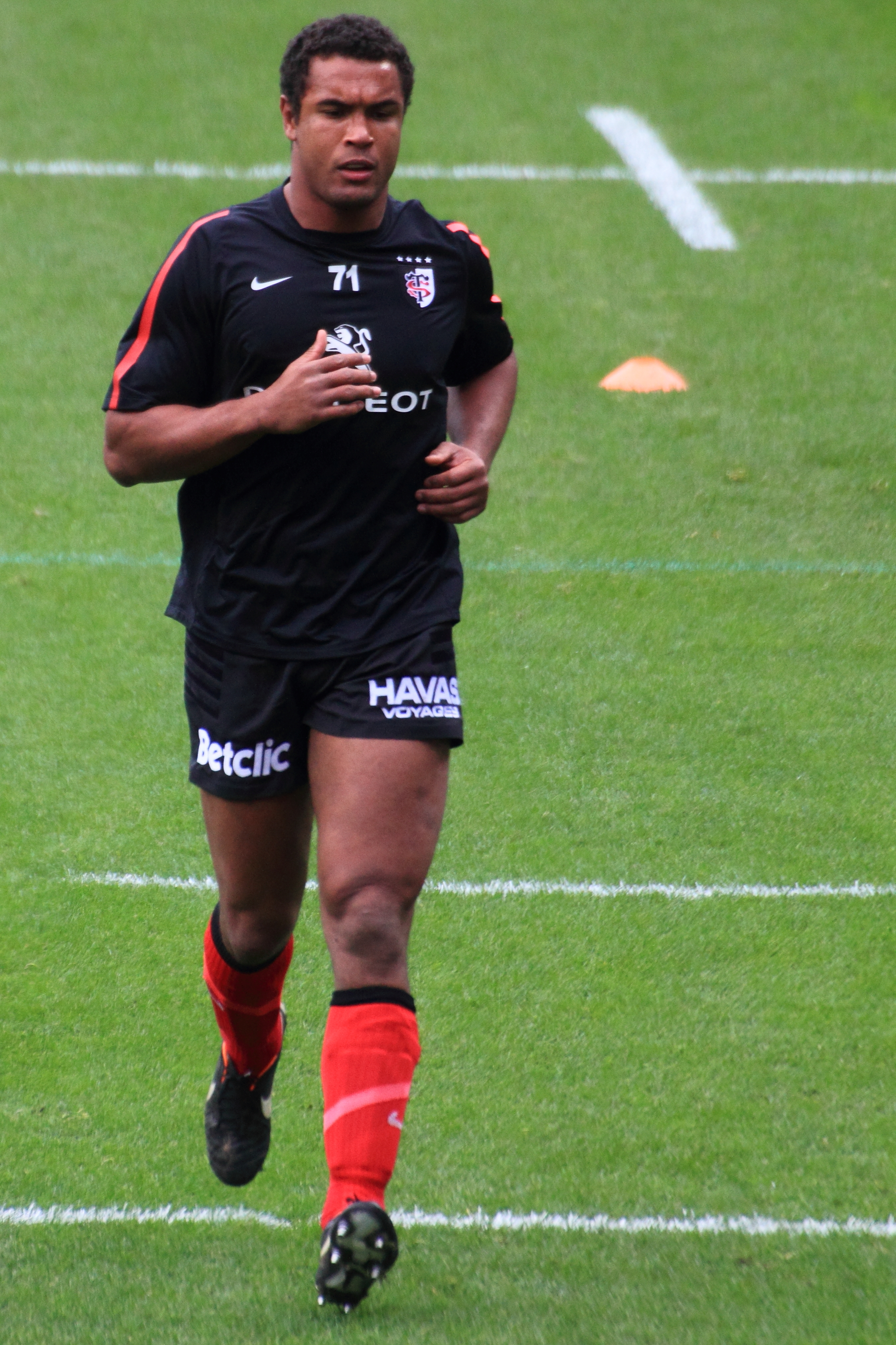 Top 14 — 3 December 2011, Stadium. Match between: Stade toulousain — RC Toulon